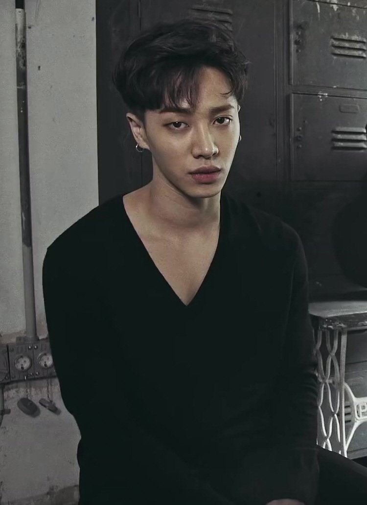 (Marie Claire Korea) BEAST is BACK!